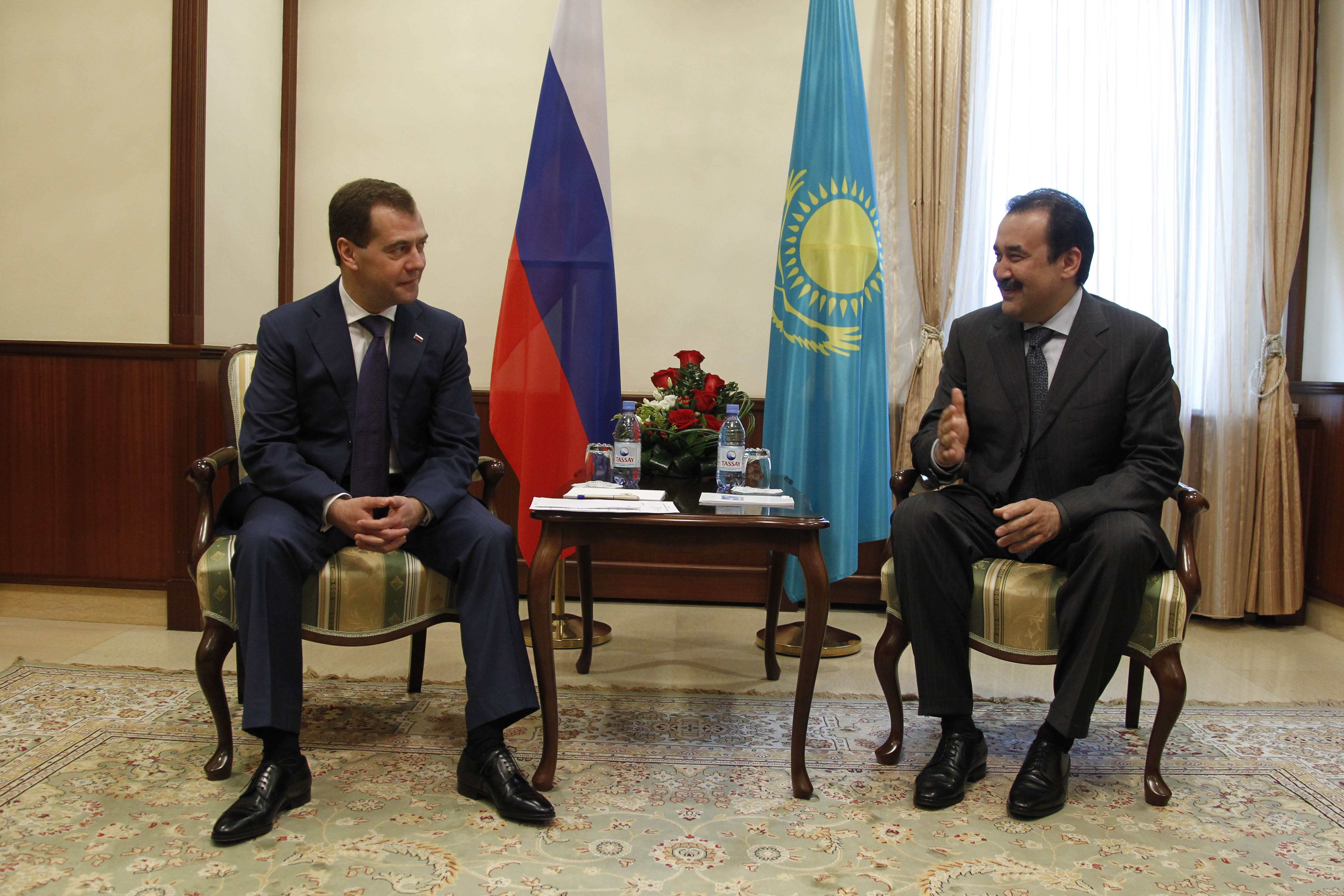 Prime Minister of the Russian Federation Dmitry Medvedev and Prime Minister of the Kazakhstan Karim Masimov